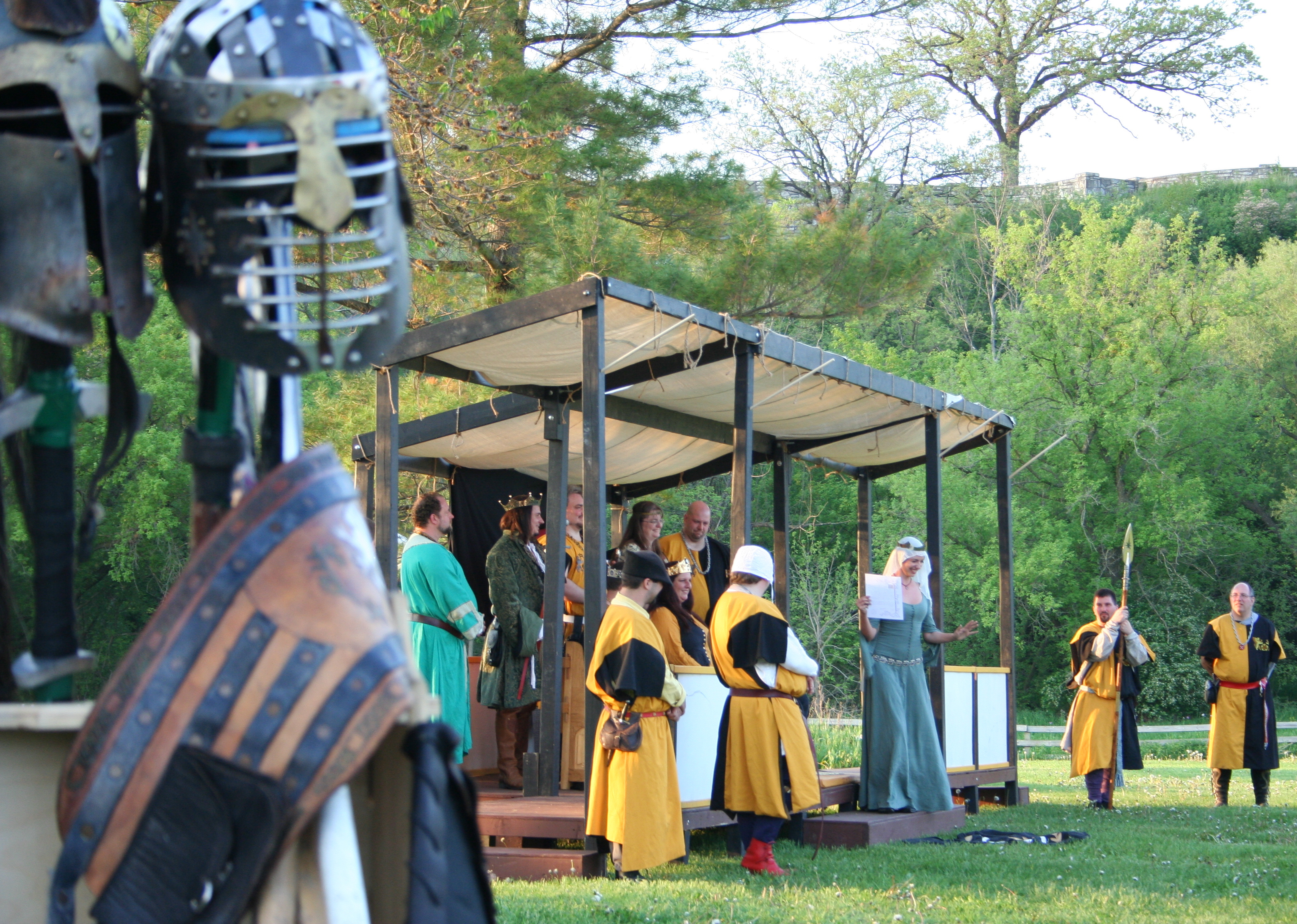 Court at a Society for Creative Anachronism tournament of chivalry event on the Fillmore County Fairgrounds in Preston, Minnesota.